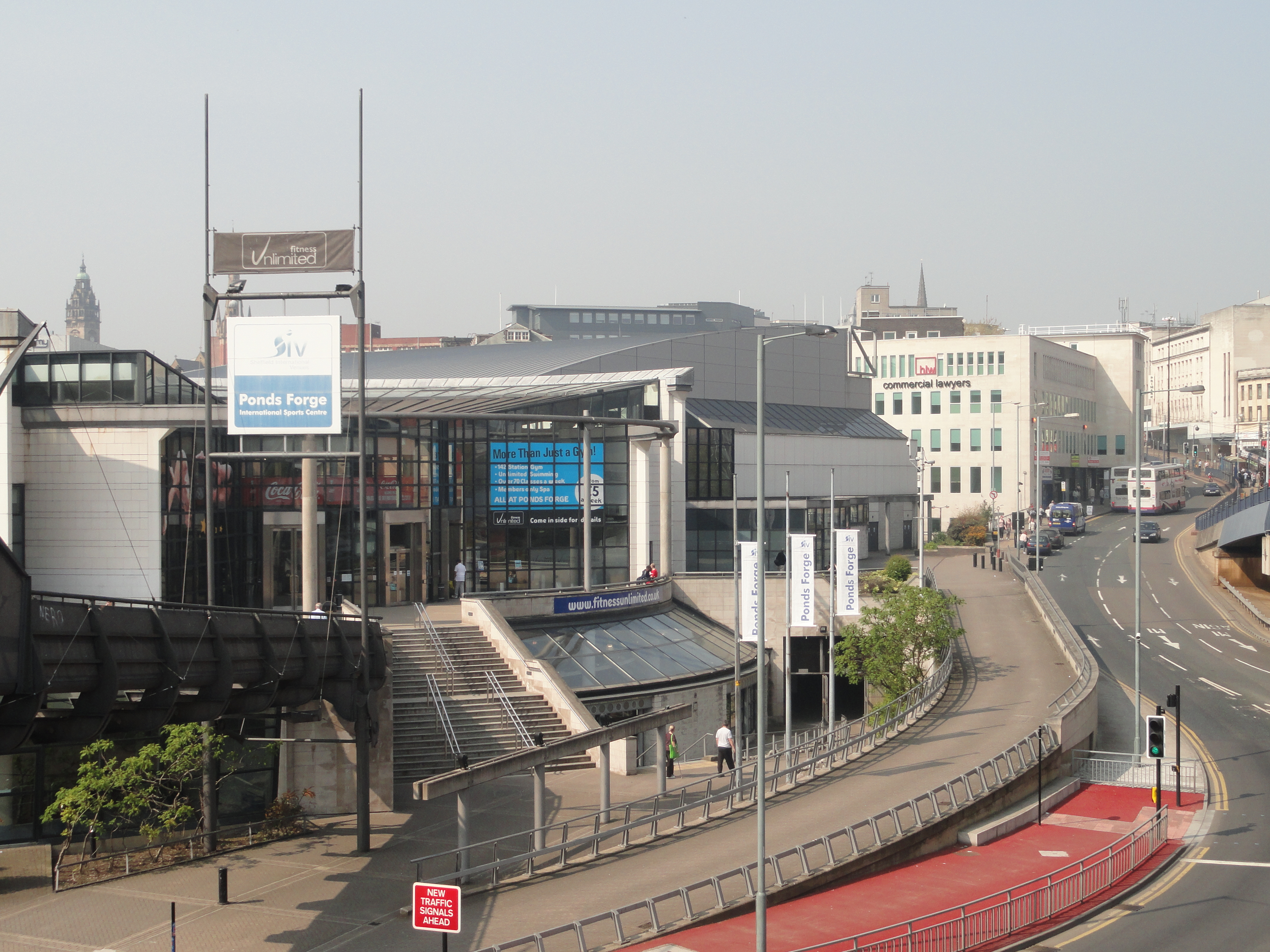 External view of Ponds Forge International Sports Centre. Taken in 2011.